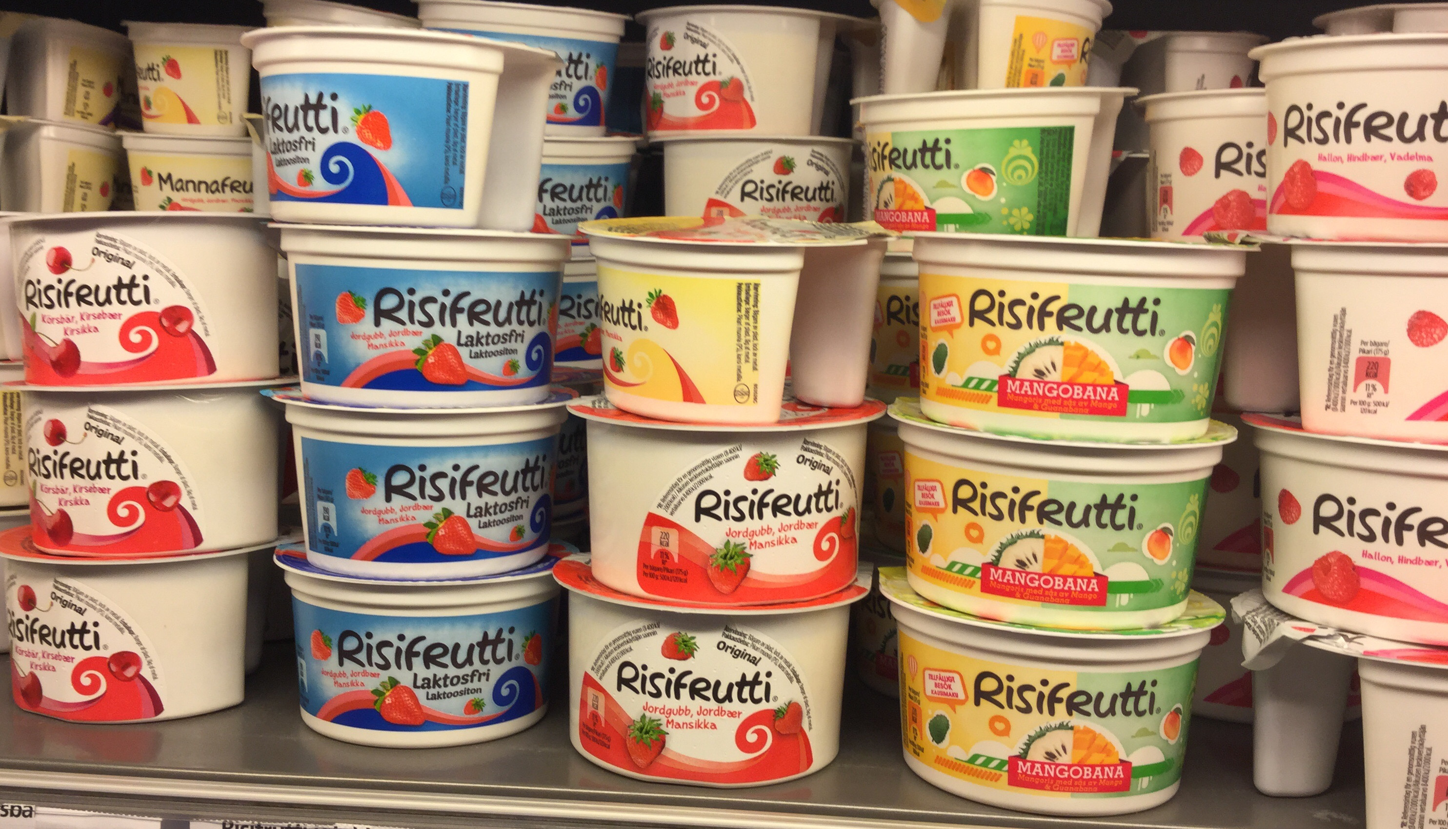 Risifrutti rice dessert for sale in a food store